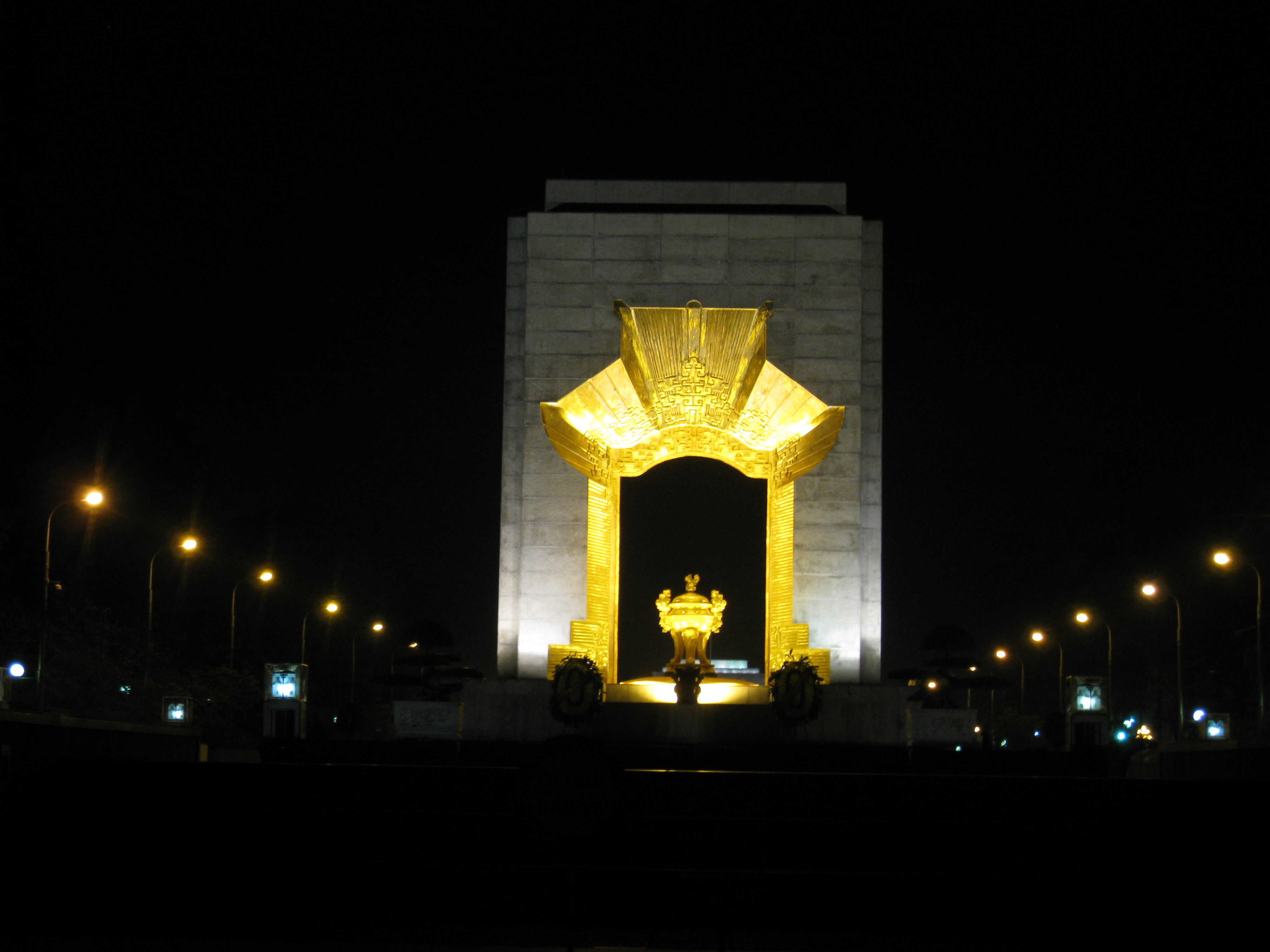 Memorial to the Revolutionary Martyrs, Ba Đình Square, Hanoi.